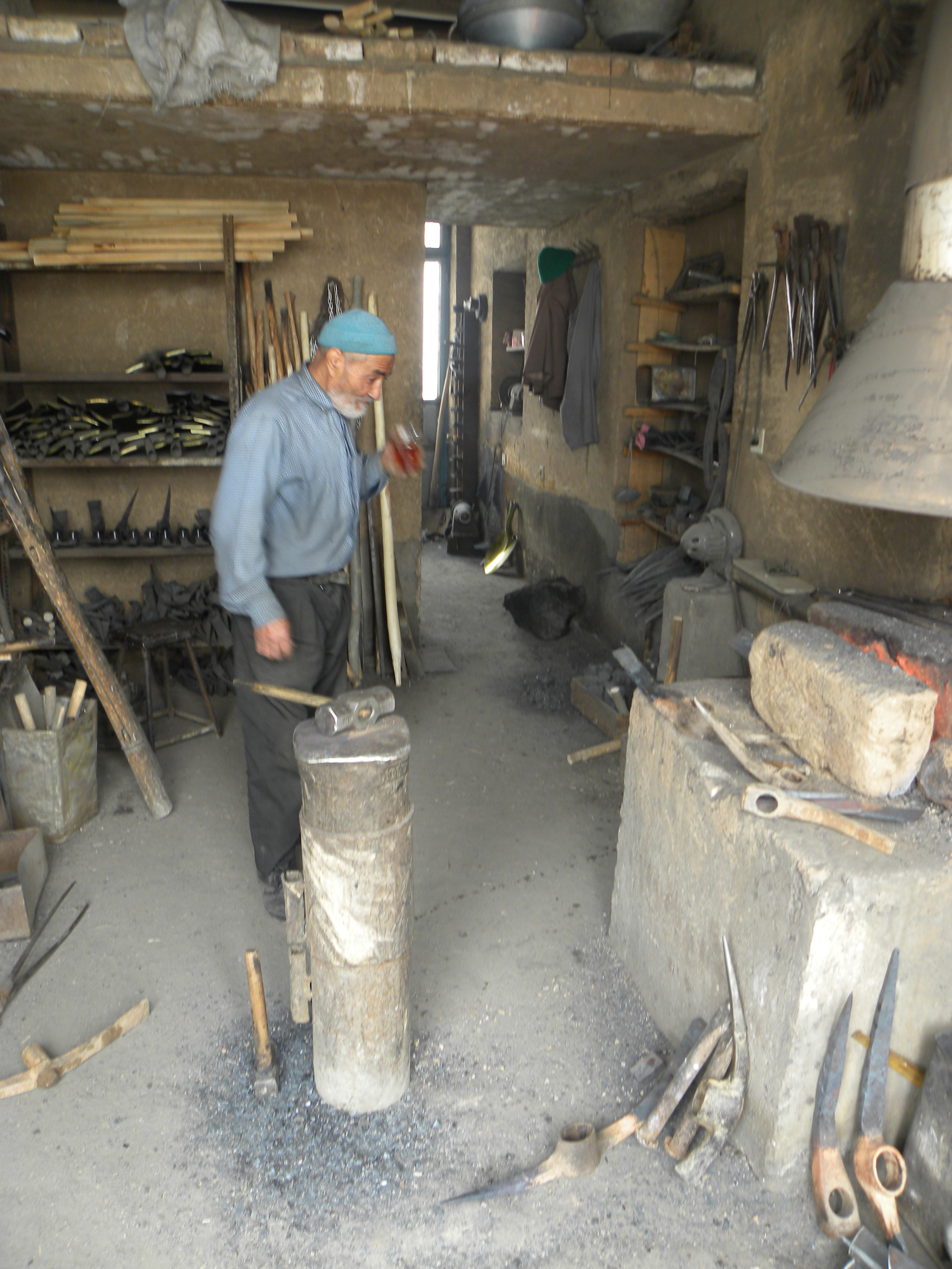 Blacksmith man in Nishapur